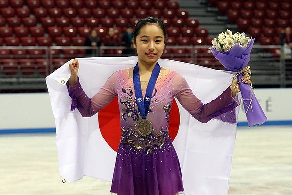 Photos – Junior World Championships 2018 – Ladies (Medalists)